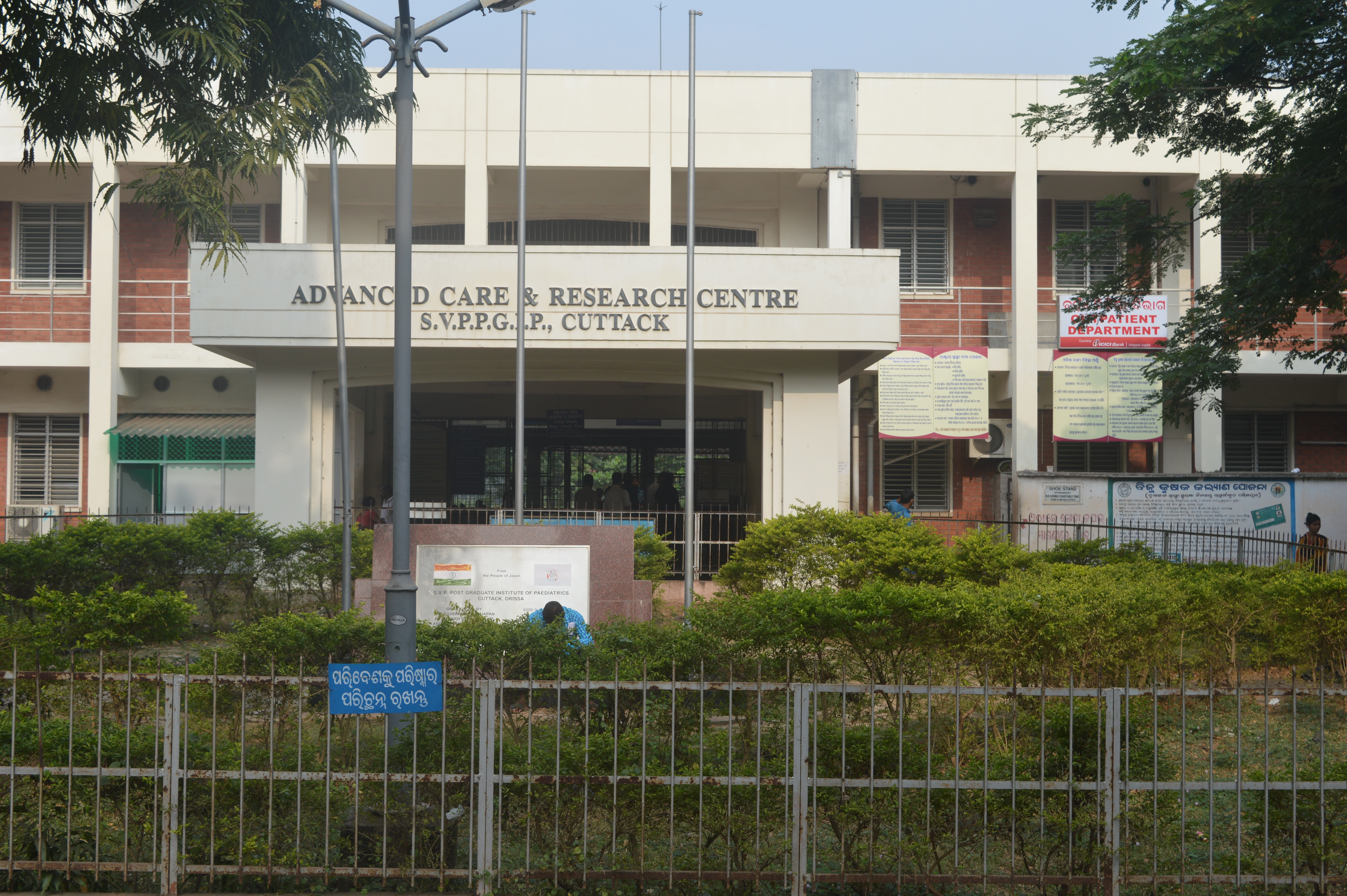 Main Building of Shishu Bhaban (Sardar Ballav Bhai Patel PG Institute of Pediatrics), Cuttack